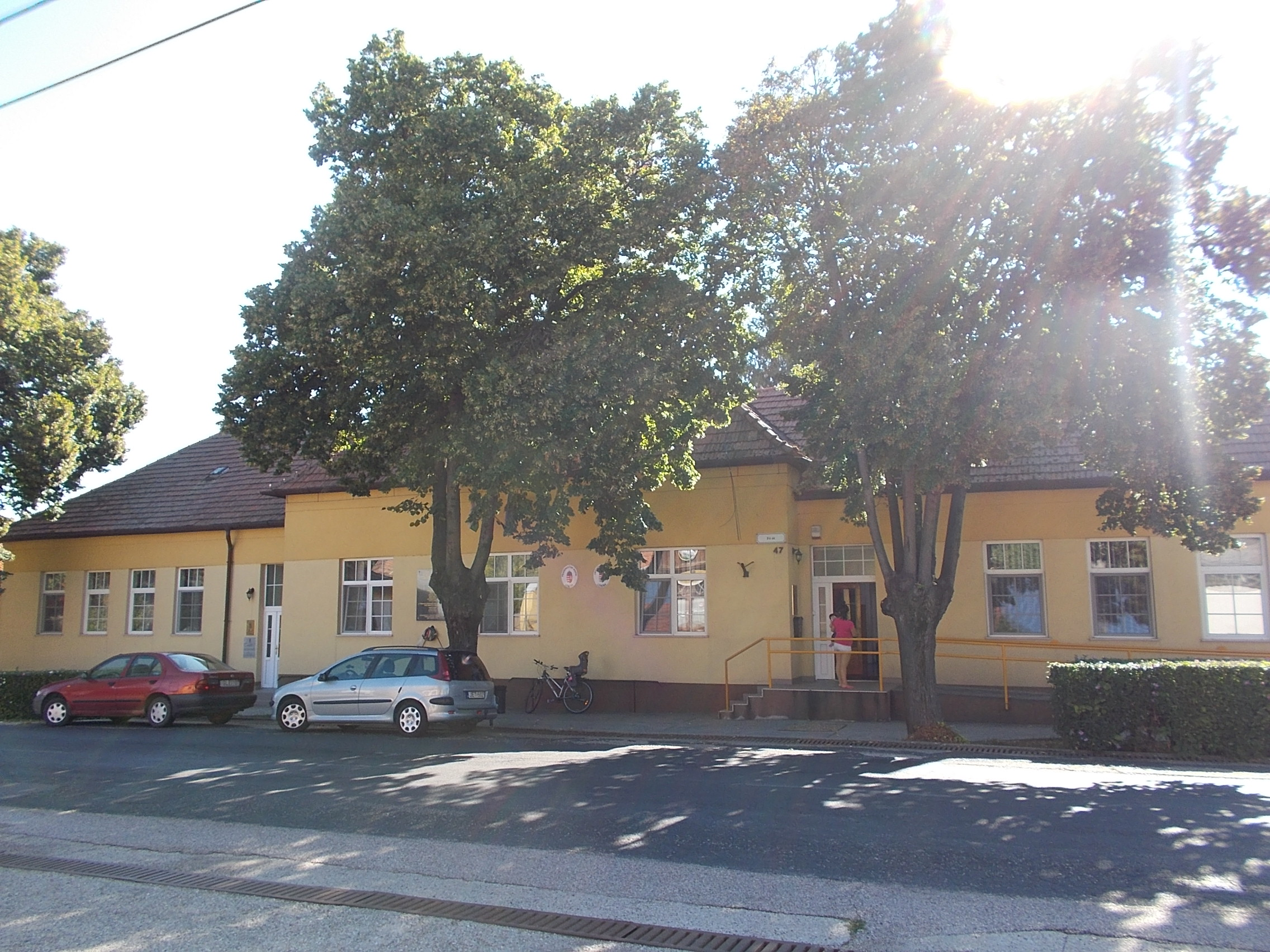 Town Hall and Register office. - 47 Fő Street (Route 8501), Lébény, Győr-Moson-Sopron County, Hungary.